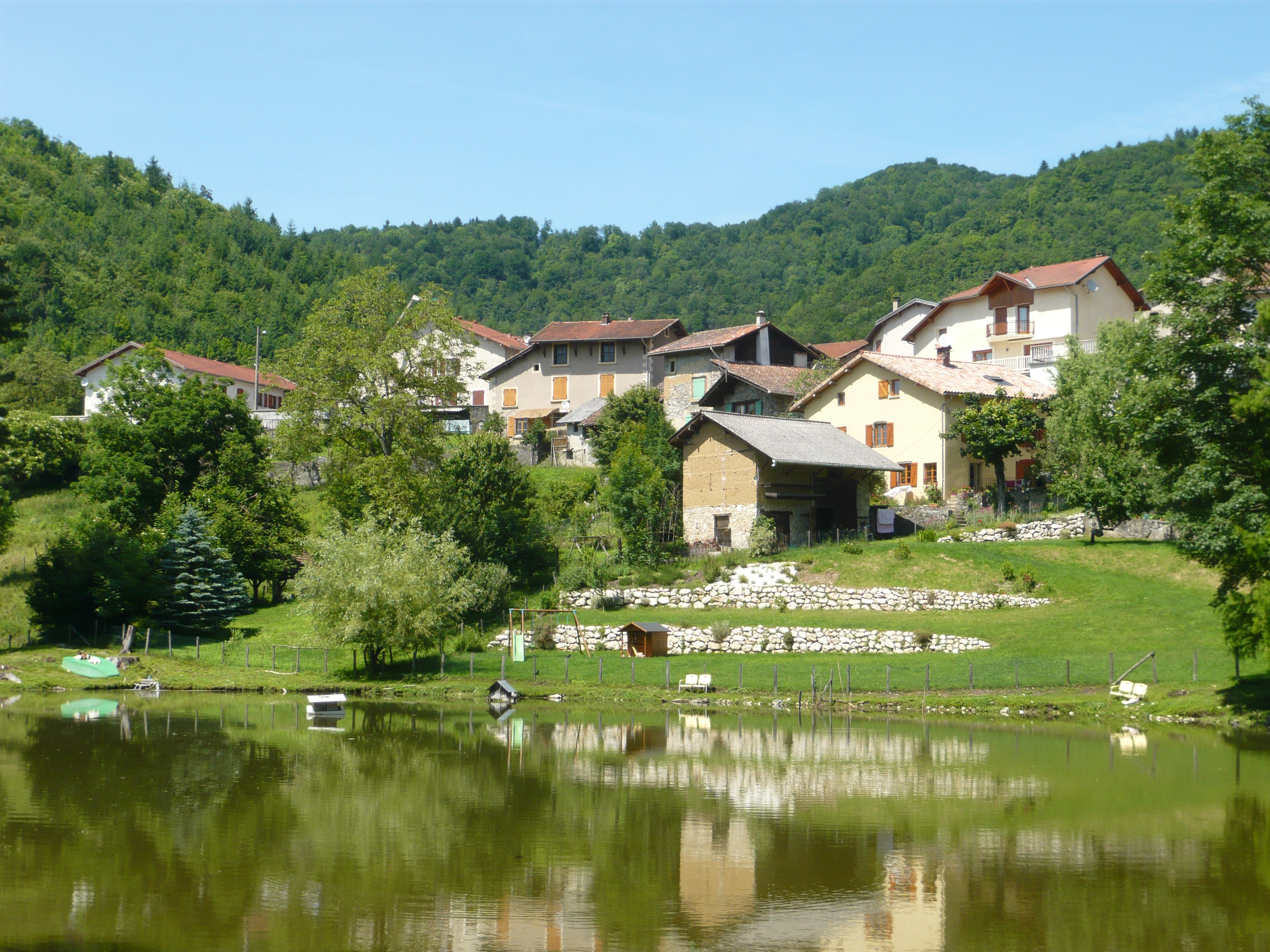 The pond of Hautefort, commune of Saint-Nicolas-de-Macherin (France). June 2012